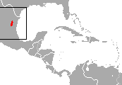 Villa's Gray Shrew (Notiosorex villai) range